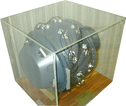 Scale model of first nuclear bomb.